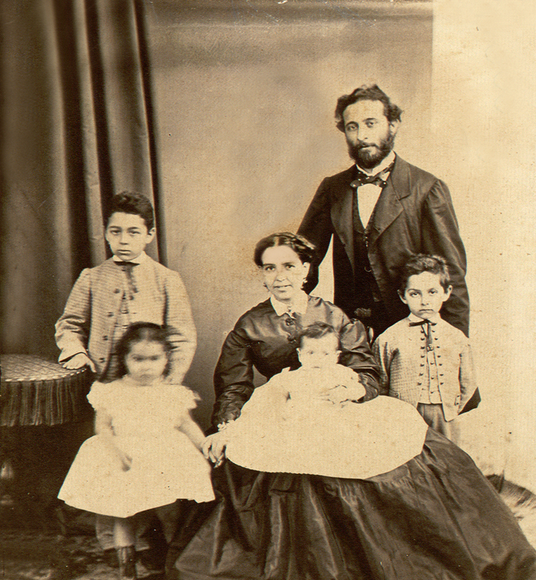 Bensaúde family photograph: Alfredo, Esther, Raquel, Raul (on his mother's lap), José and Joaquim. Dated 1866, unknown author.